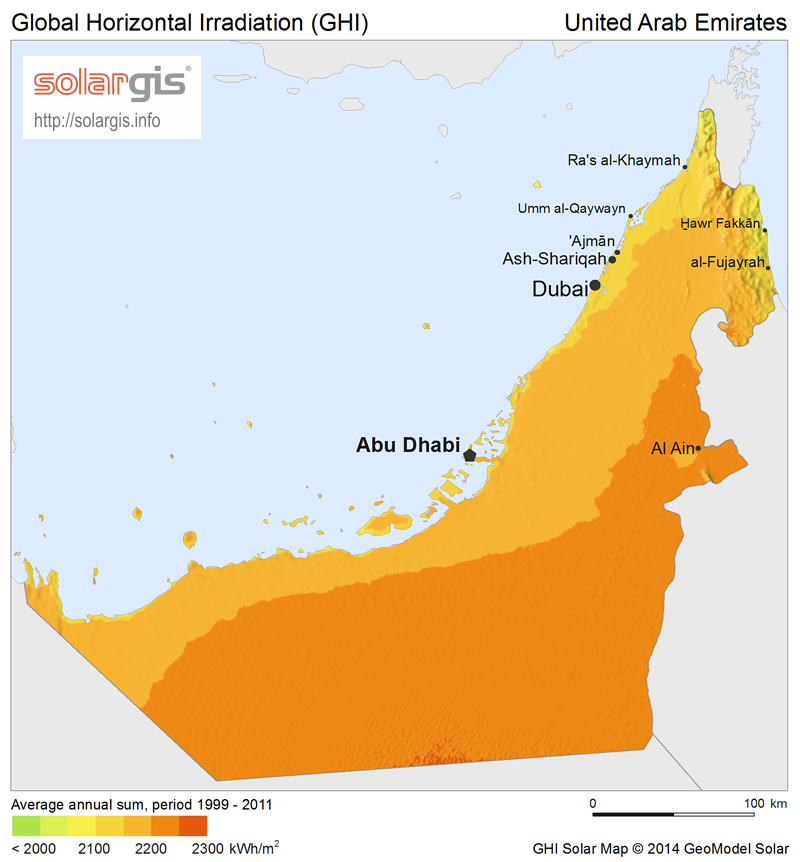 Solar Radiation Map: Global Horizontal Irradiation Map of the United Arab Emirates, SolarGIS.